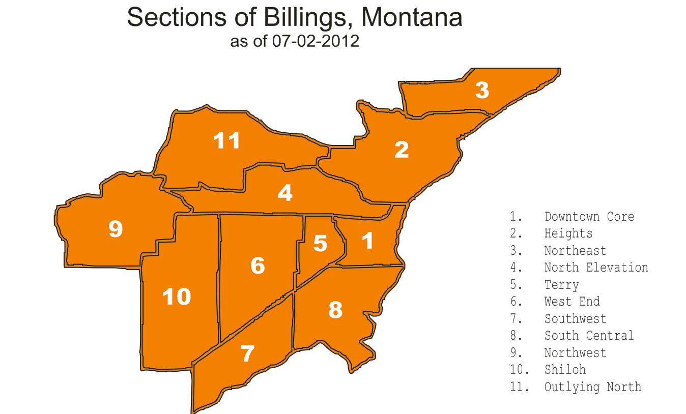 Map of the Sections of Billings, Montana